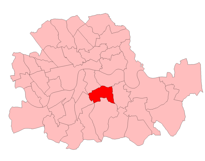 A map of Peckham constituency within the London County Council area, as it existed from 1950 to 1974.